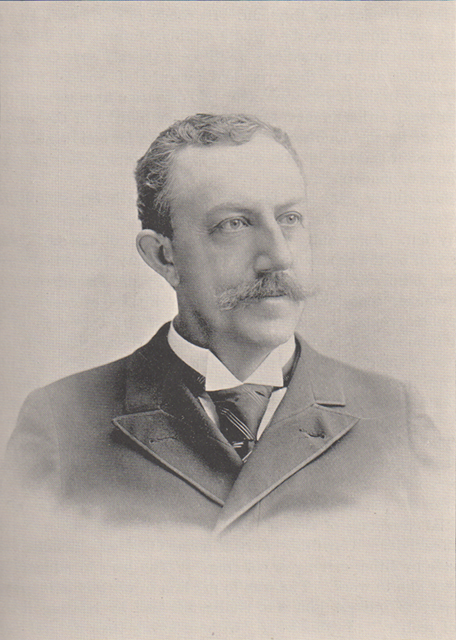 David Starr Jordan, LL.D. (1851-1931), ichthyologist, educator and peace activist.